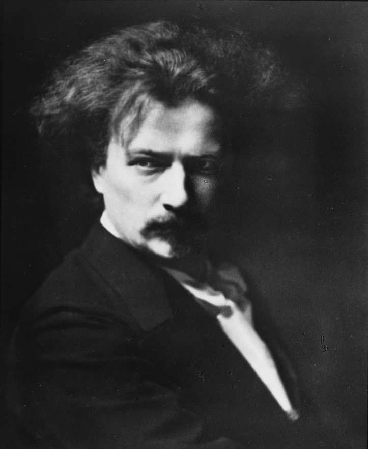 Title Portrait photograph of Ignace Paderewski Contributor Names Genthe, Arnold, 1869-1942, photographer Created / Published between 1896 and 1942; from a negative taken between 1896 and 1942. Subject Headings - Paderewski, Ignace Jan,--1860-1941. Format Headings Lantern slides. Portrait photographs. Notes - Title devised. - Purchase; Genthe Estate; 1942 or 1943. - ID: As I remember, facing p. 119 Medium 1 slide : lantern ; 4 x 5 in. or smaller. Call Number/Physical Location LC-G4085- 0407 [P&P]